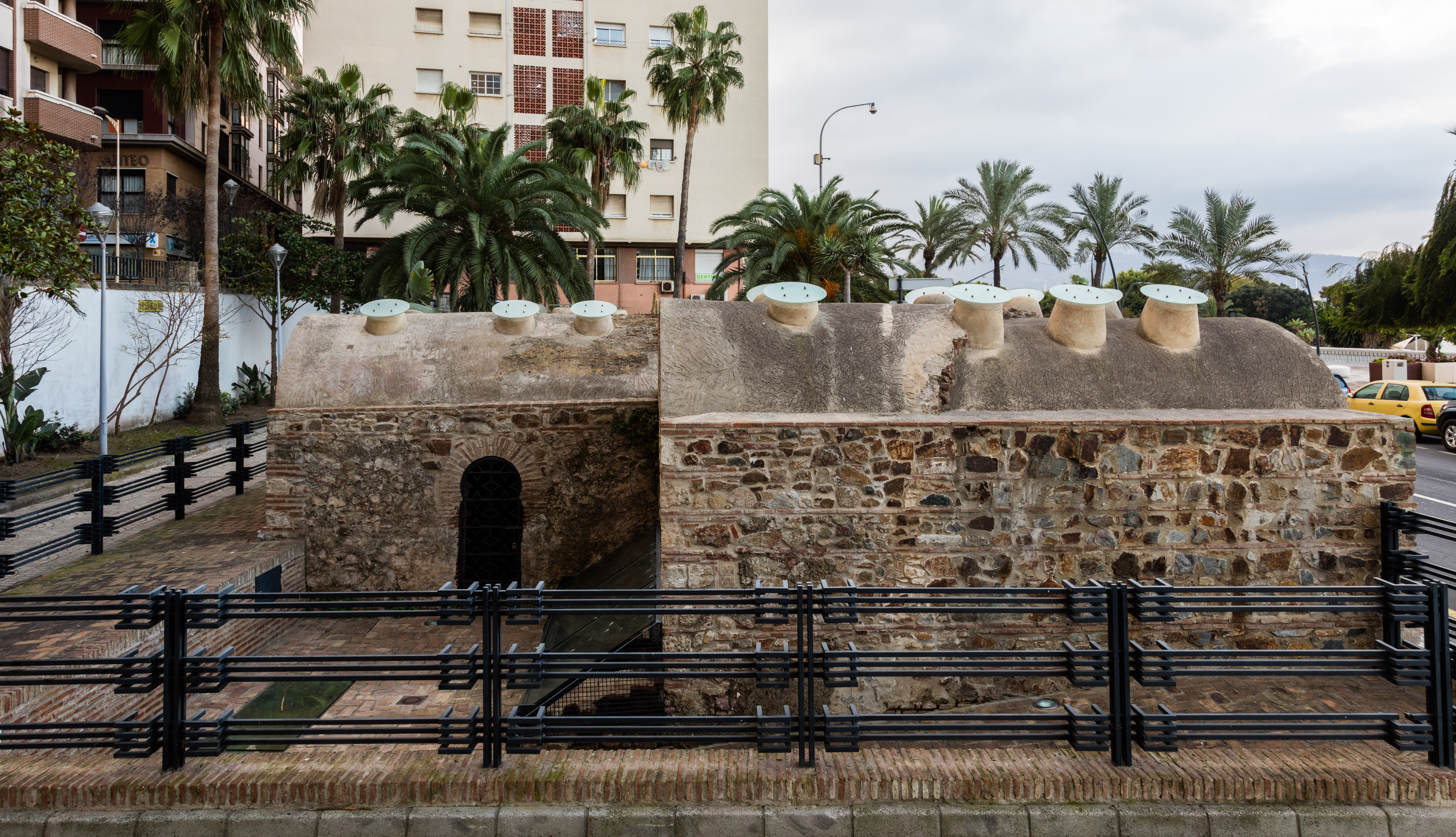 Arab baths, Ceuta, Spain